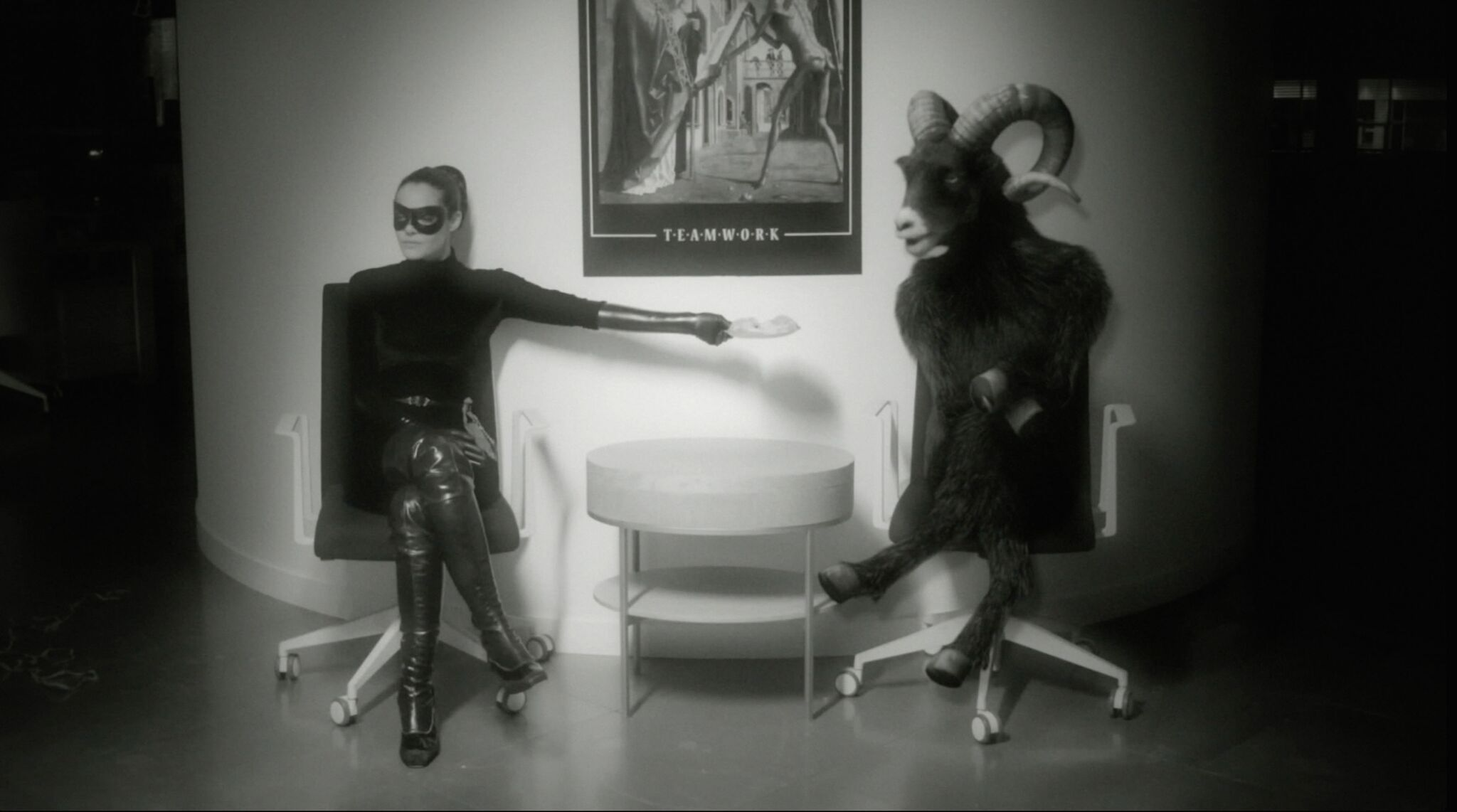 A still of Alice Waddington's short film Disco Inferno, actress Ana Rujas and a motion-captured black goat representing a humorous version of Hell.